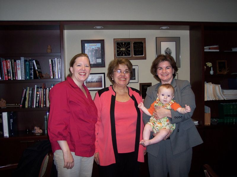 Here we are with the judge, immediately after she signed the order granting Jill's petition to adopt Noah.